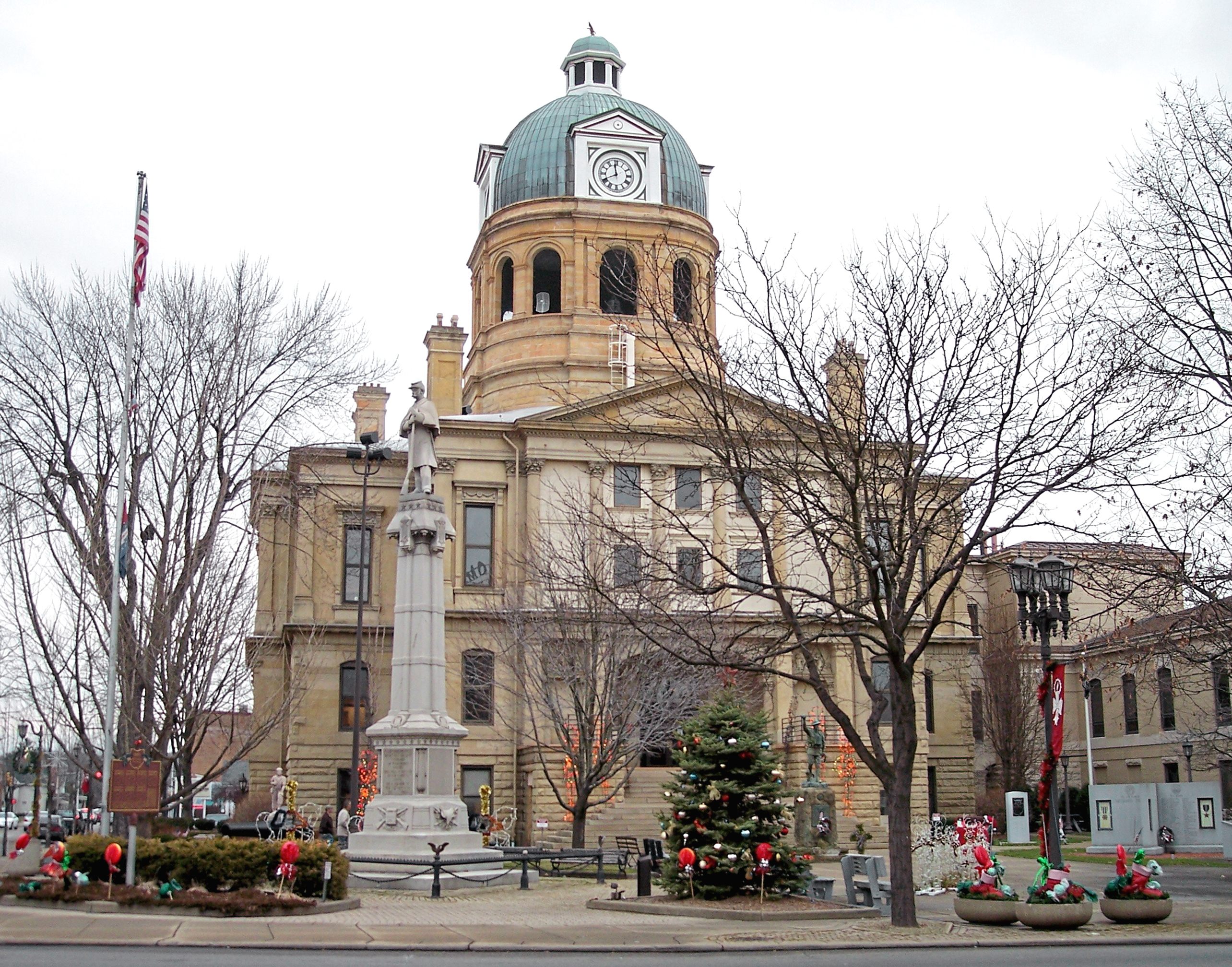 The Tuscarawas County Courthouse on High Street in downtown New Philadelphia, Ohio